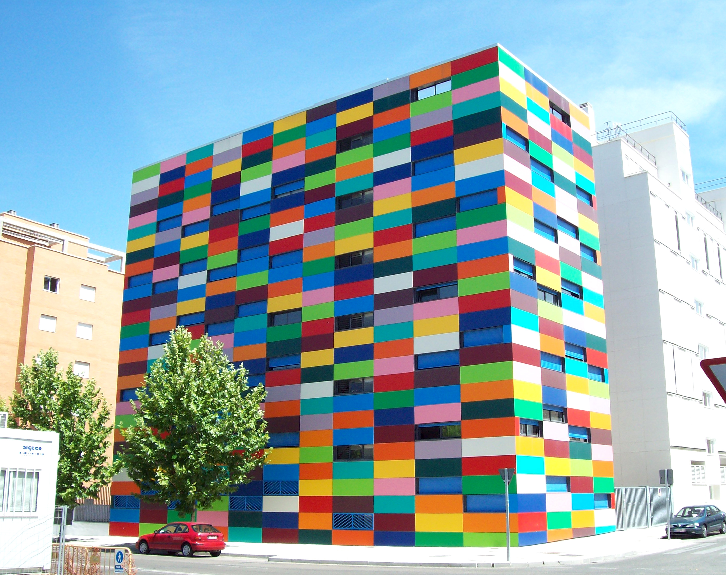 View of Carabanchel 24 building in Madrid (Spain).